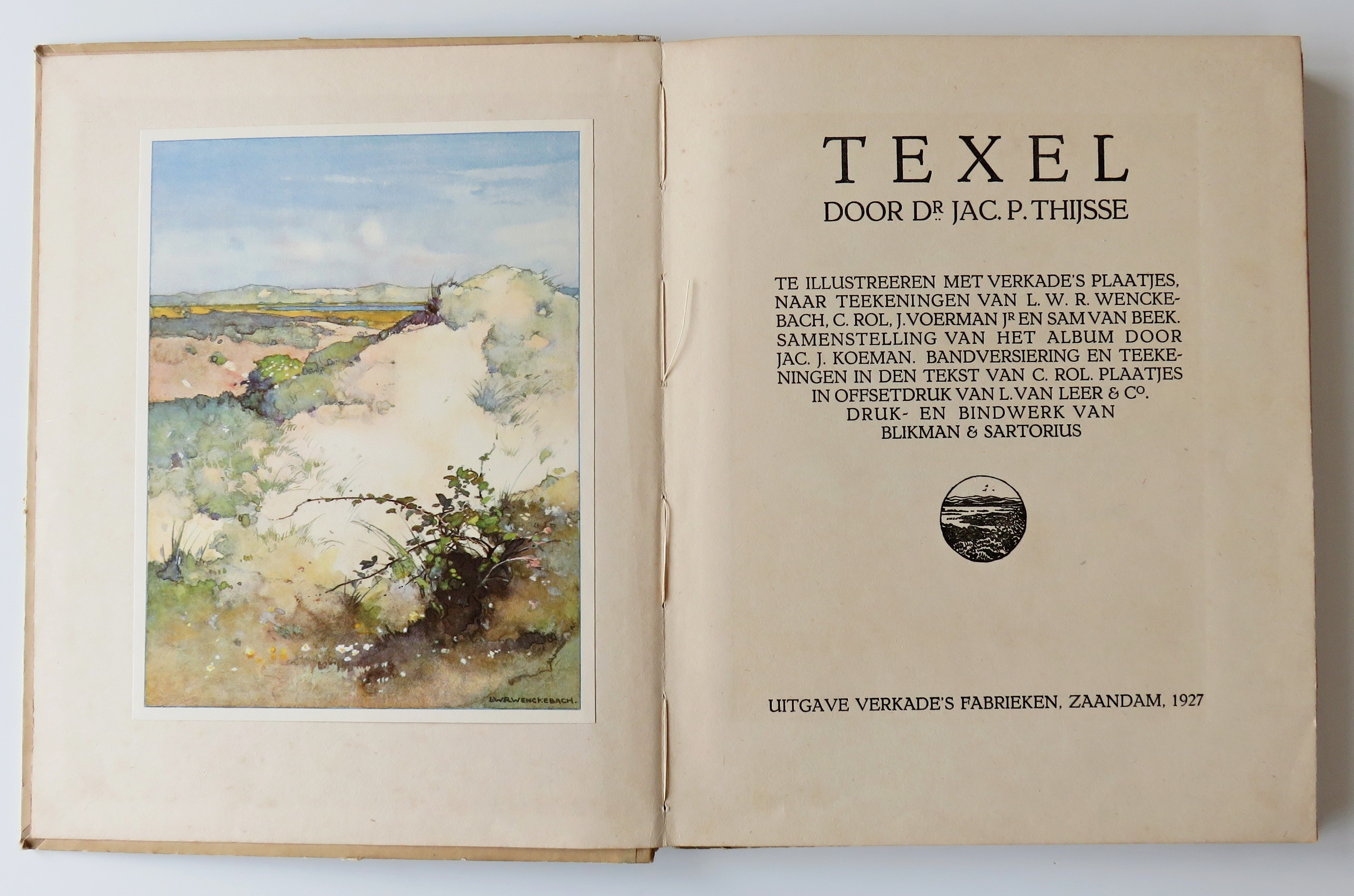 Title page of the book Texel by Jac. P.Thijsse. Illustrations by Willem Wenckebach (1860–1937) Alternative names Ludwig Willem Reijmert WenckebachDescriptionDutch lithographer, painter, draughtsman and designerDate of birth/death 12 January 1860 25 June 1937Location of birth/death The Hague SantpoortWork periodcirca 1875-1937Work location Amsterdam, Utrecht (1880-1886), Amsterdam (?-1898), SantpoortAuthority control : Q1895785 VIAF: 29351375 ISNI: 0000 0000 7736 2086 ULAN: 500021630 Open Library: OL2356135A DBNL: wenc009 creator QS:P170,Q1895785